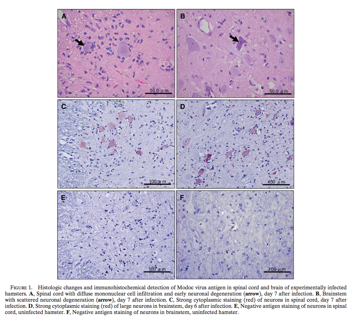 Histologic changes and immunohistochemical detection of Modoc virus antigen in spinal cord and brain of experimentally infected hamsters.